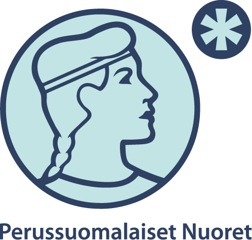 Logo of political youth organisation the Finns Party Youth.